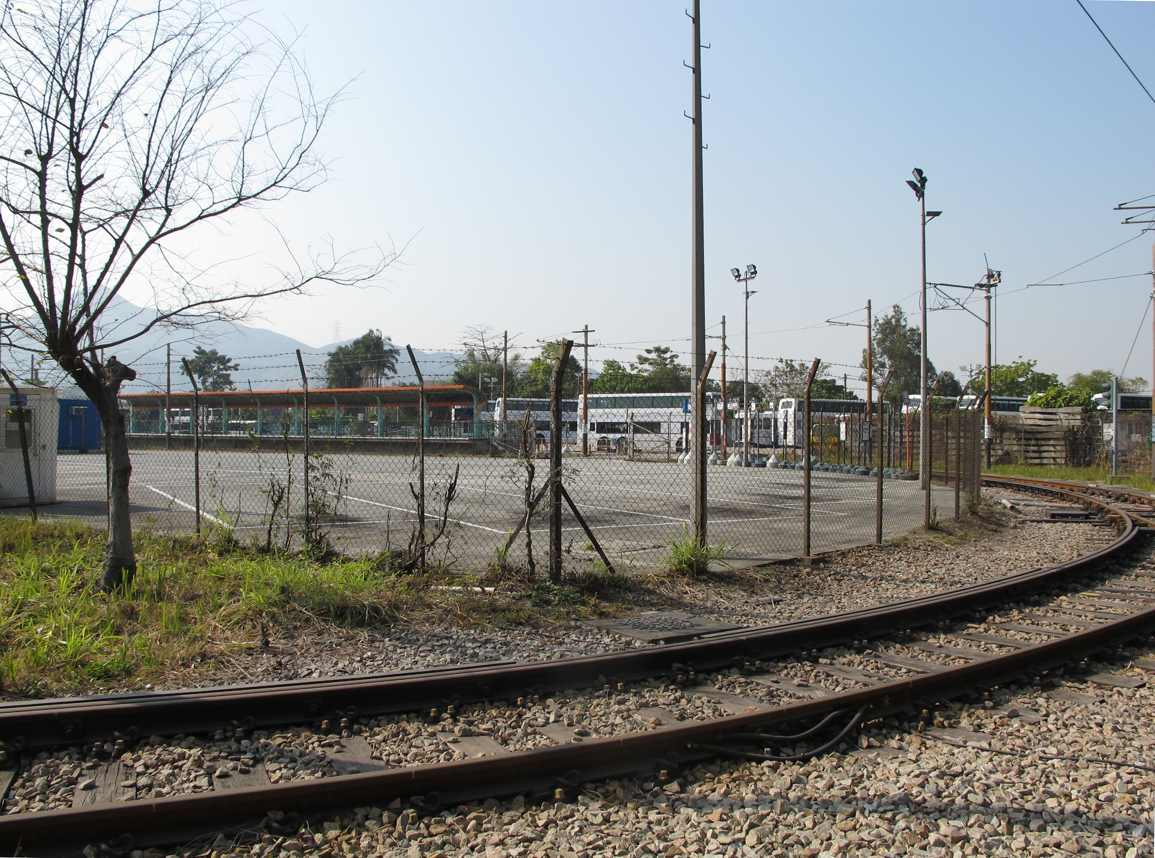 Hung Tin Road Emergecy Platform 洪天路緊急月台